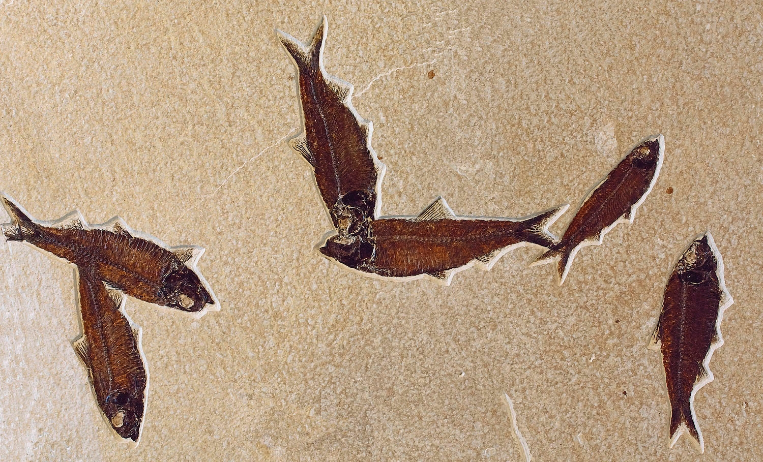 Mass mortality of Knightia eocaena Knightia eocaena was a schooling fish. This specimen is from the sandwich beds where several mortality beds of adult fish are found. (fish are approximately 10 cm long)